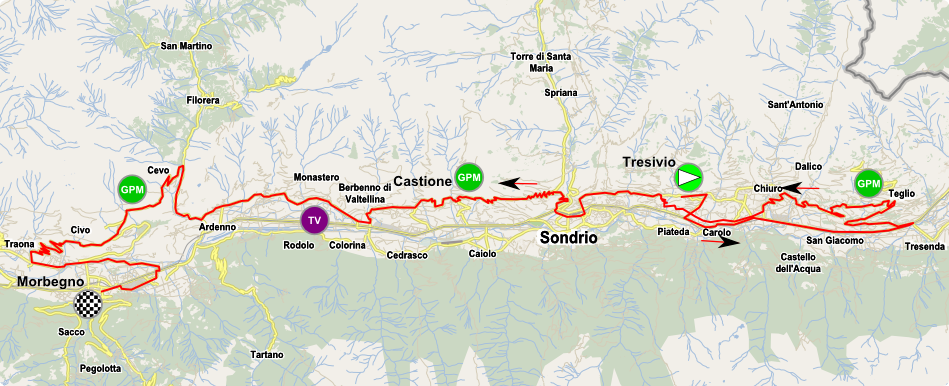 Map of the stage 6 of Giro Donne 2015. Background from OpenStreetMap.